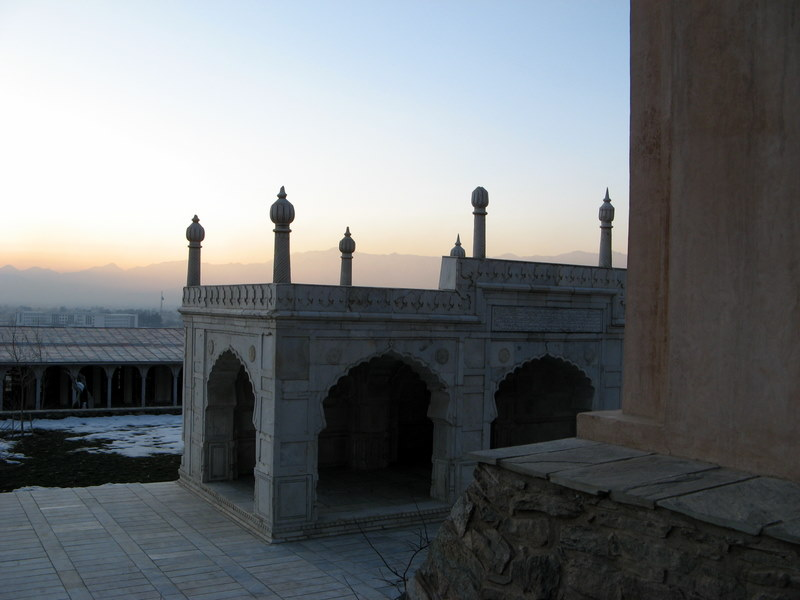 It's undergone extensive restoration.